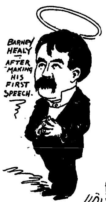 Cartoonist's version of Bernard Haley, Los Angeles City Council, 1904-09; he has a halo over his head, and text beside it says "Barney Haley after making his first speech"